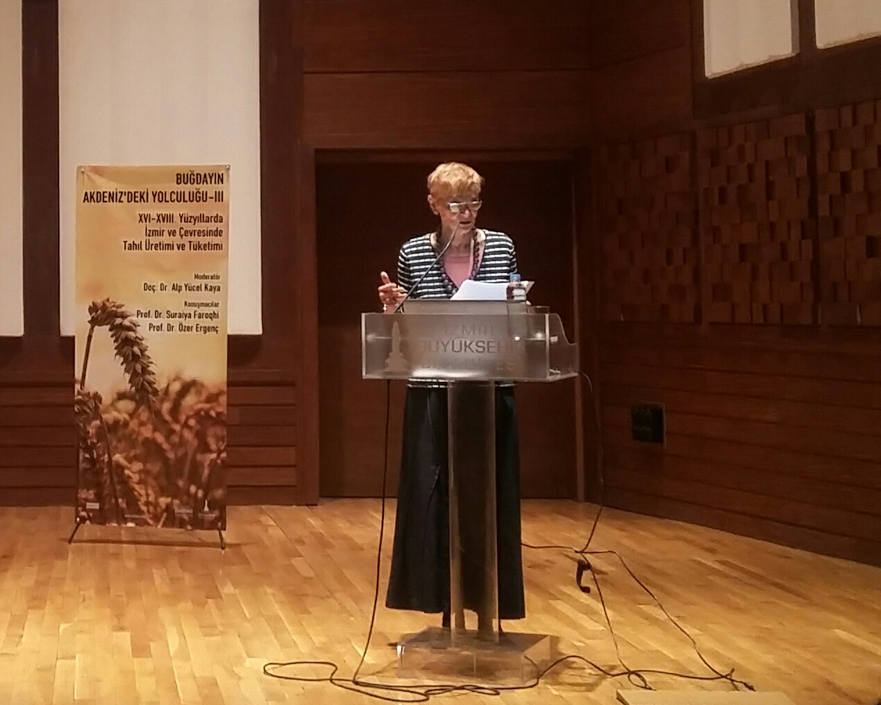 Suraiya Faroqhi, The Travel of Wheat in the Mediterranean - III, Izmir Ahmed Adnan Saygun Arts Center (23/09/2017, 14.00)